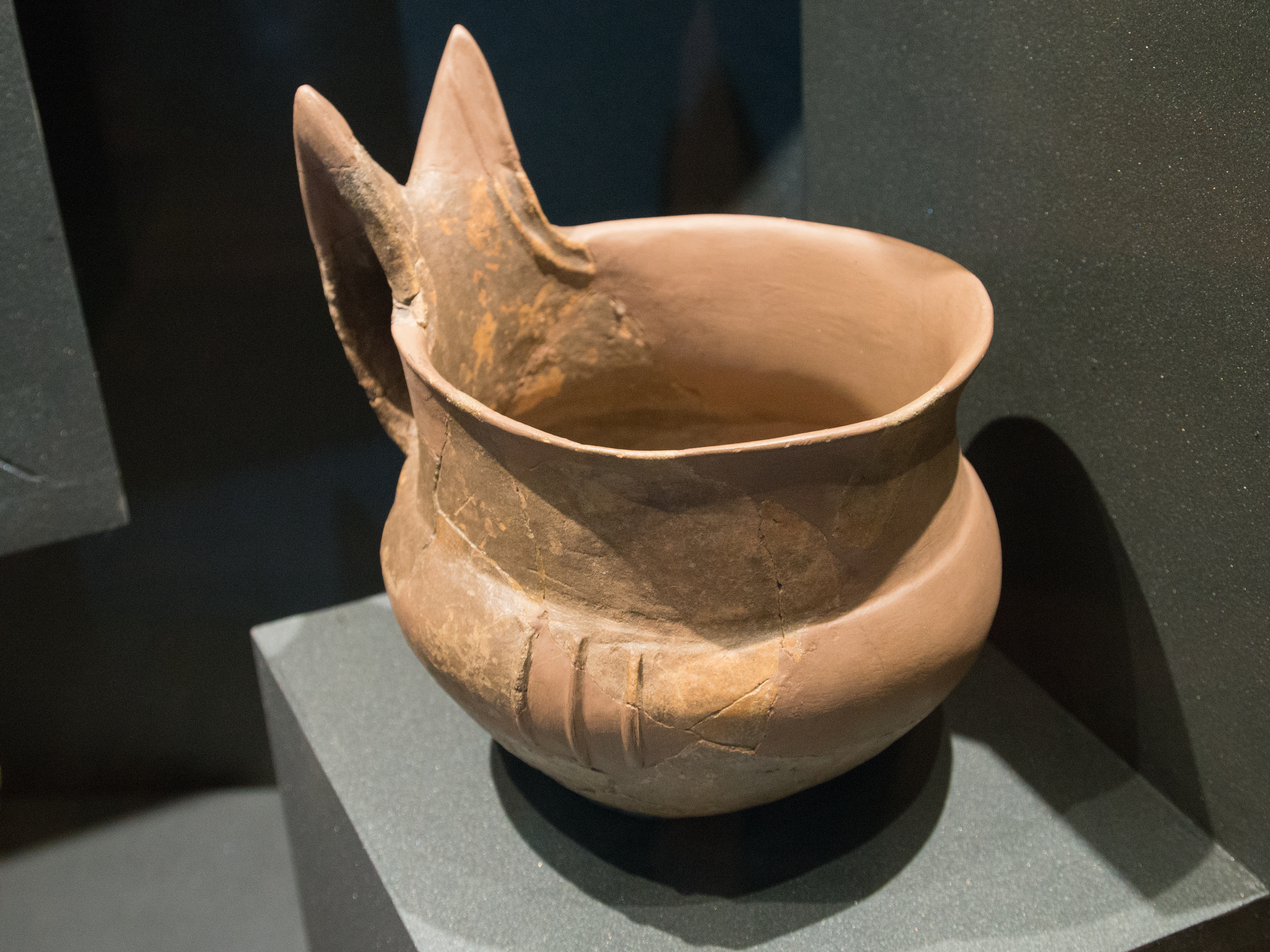 Jug with horned handles (ansa lunata/cornuta type), pottery, hight 243 mm. Found at Prague Kbely. Řivnáč culture of the Eneolithic, ca 2900-2700 BC. The City of Prague Museum, inv. no. A0236396/001.